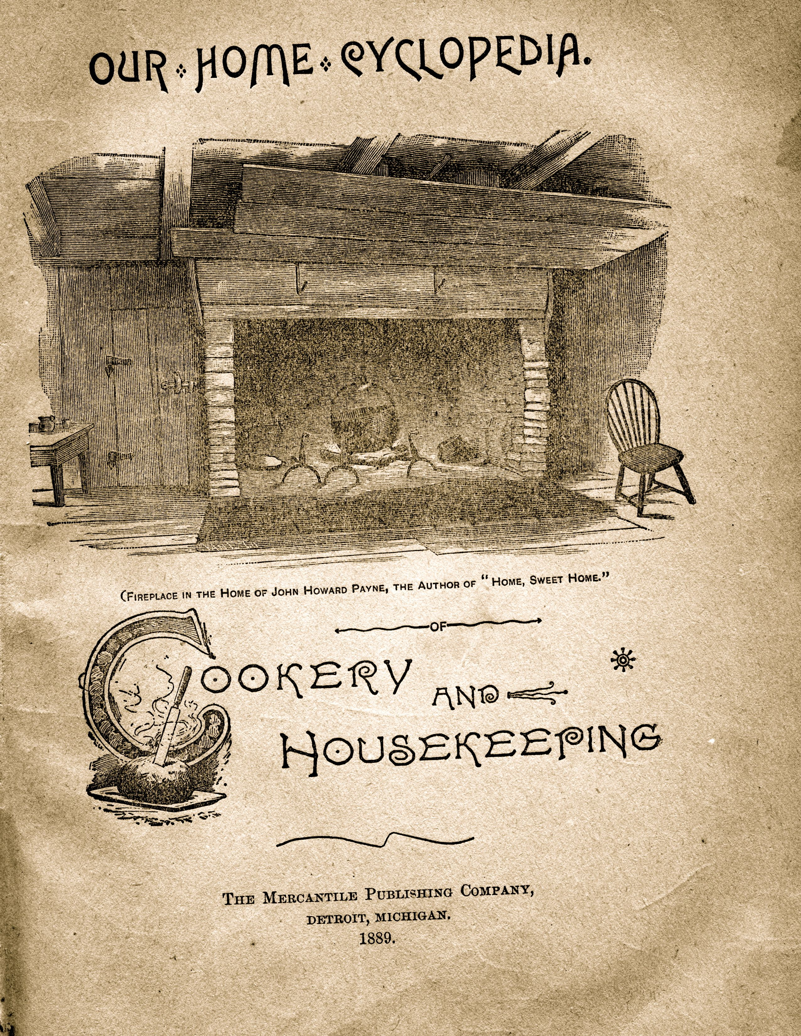 Title page of "Our Home Cyclopedia," of "grocery and housekeeping," Other information